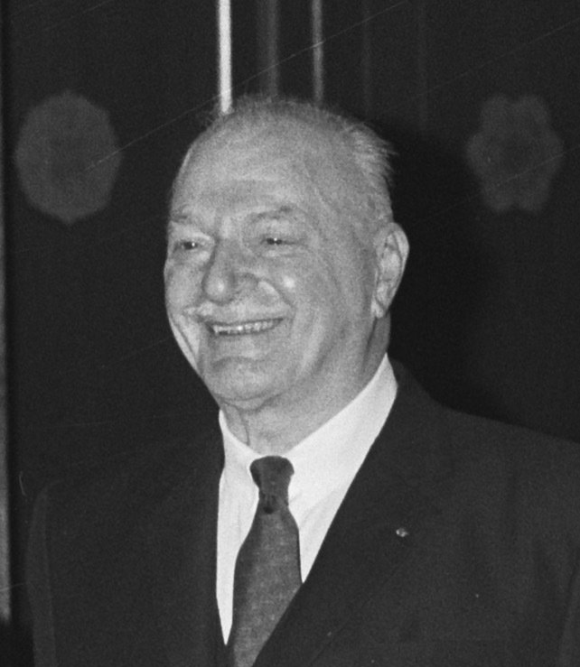 Paul Delouvrier in 1985 at the presentation of the Erasmus prize.